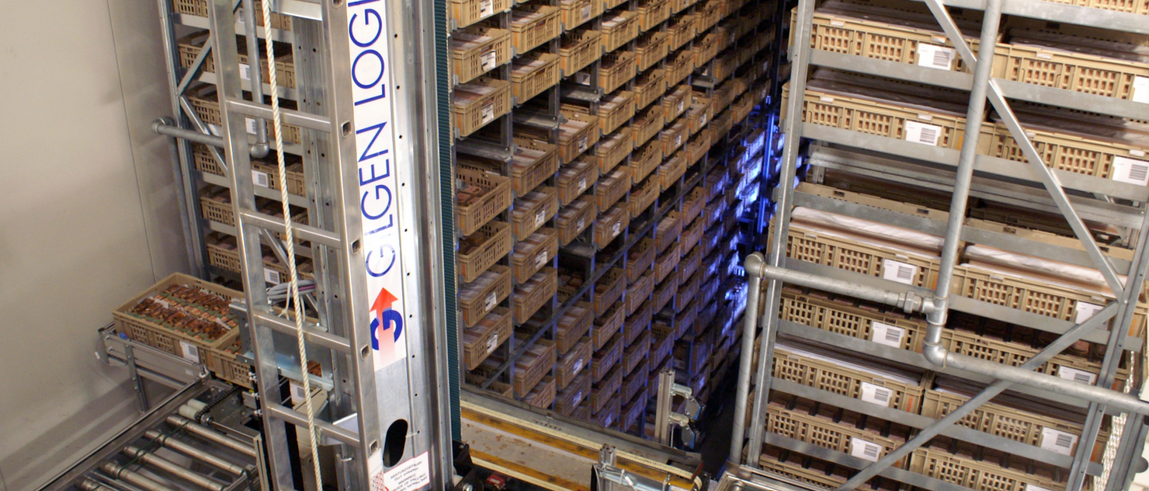 The automatic small-parts devices for storing various sizes of containers and trays are available for different performance requirements. The stacker cranes are automatically operated rail-mounted devices for automatic warehouses. These systems are designed for containers and trays weighing up to 50 kg.